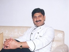 Image of Chef Rakesh Sethi